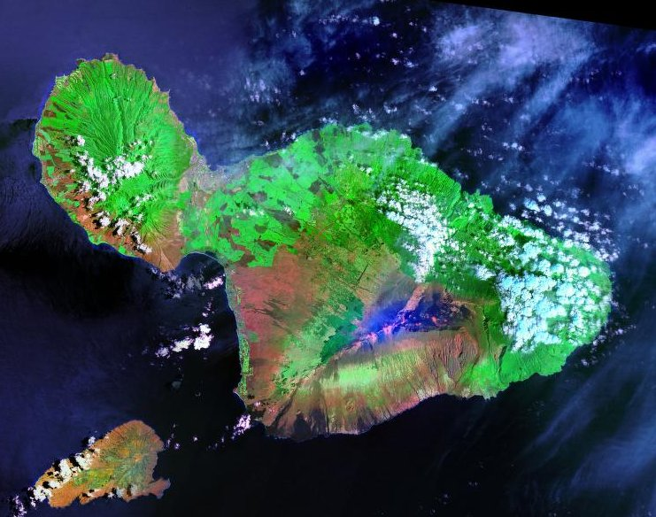 In January 2014, Bill Golac, GXE Group CEO, bought most of the island to Murdock.